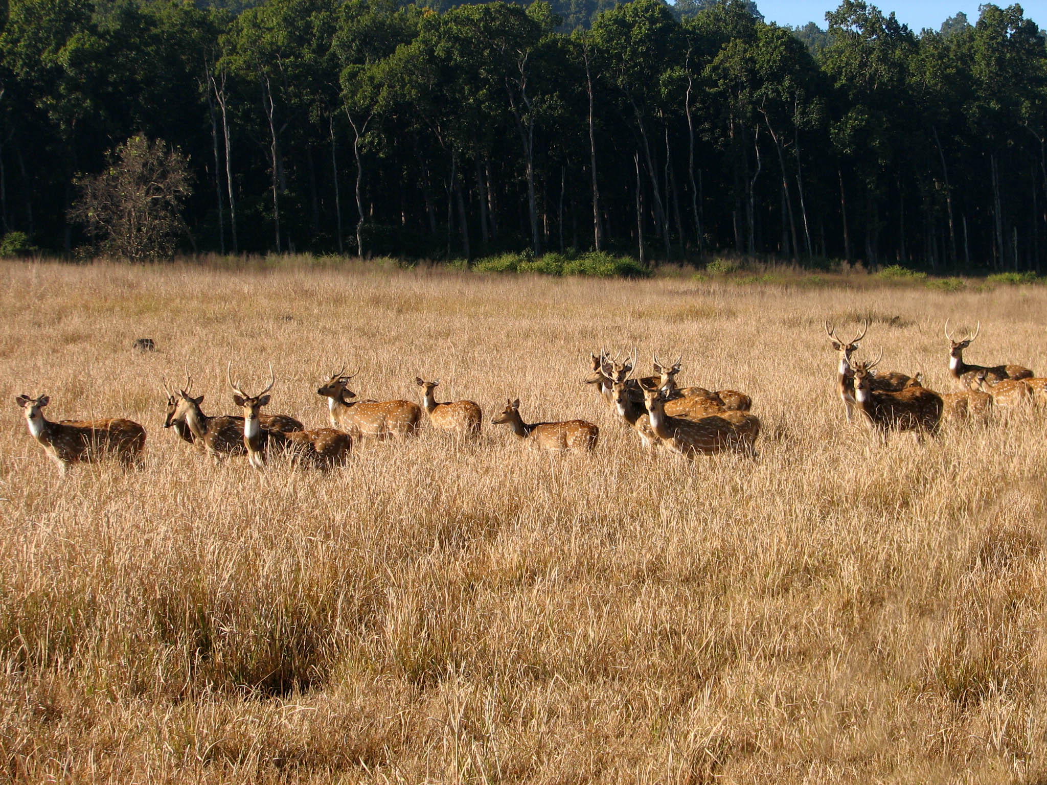 Spotted deer group in Jim Corbett national park, India